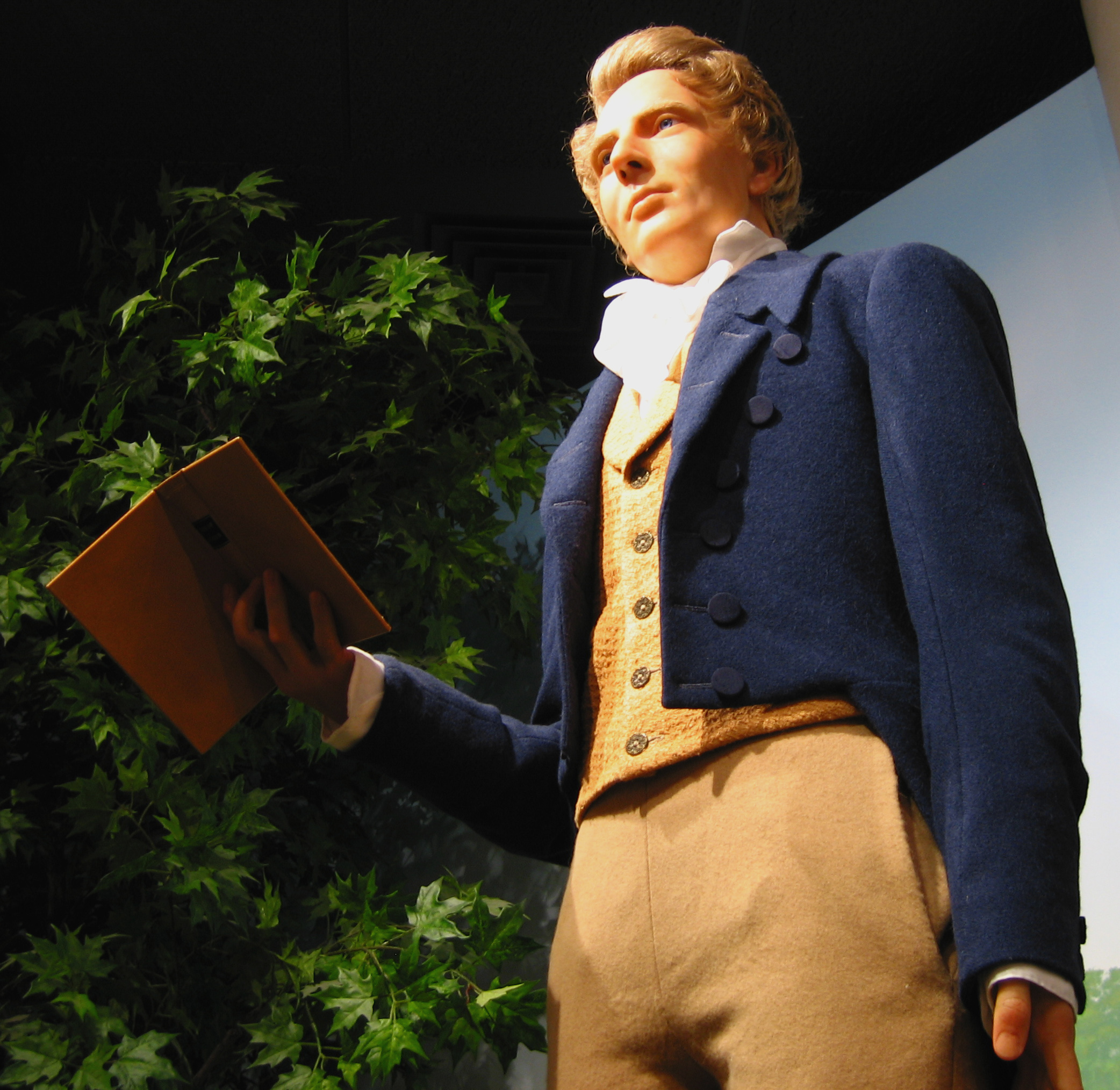 Joseph Smith figure holding a copy of the Book of Mormon, North Visitors' Center, Temple Square, The Church of Jesus Christ of Latter-day Saints by Ricardo630